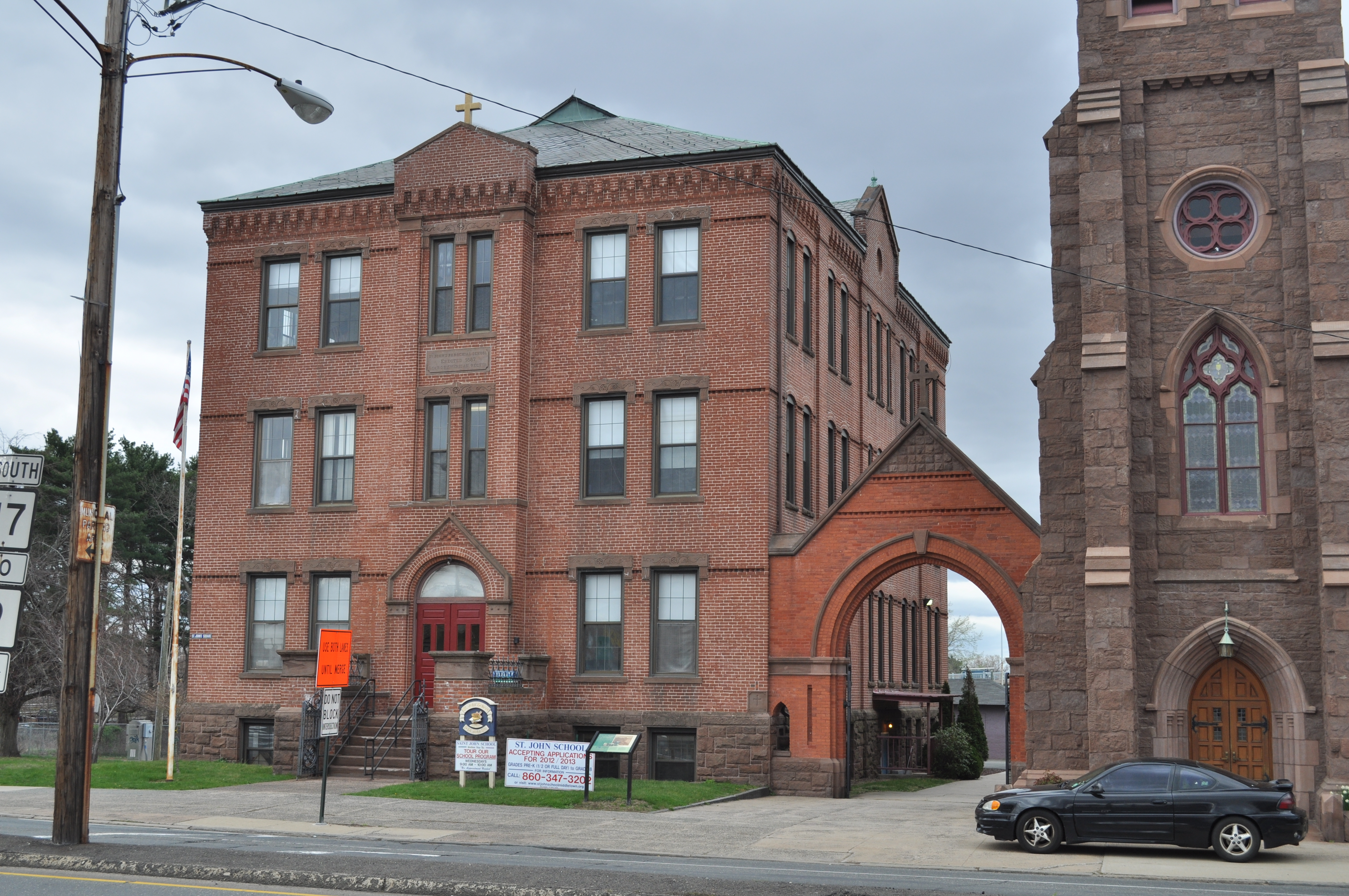 St. John's Parochial School, 5 St. John's Street, Middletown, Connecticut, USA (built 1887). A contributing property of the Main Street Historic District, which is listed on the National Register of Historic Places.